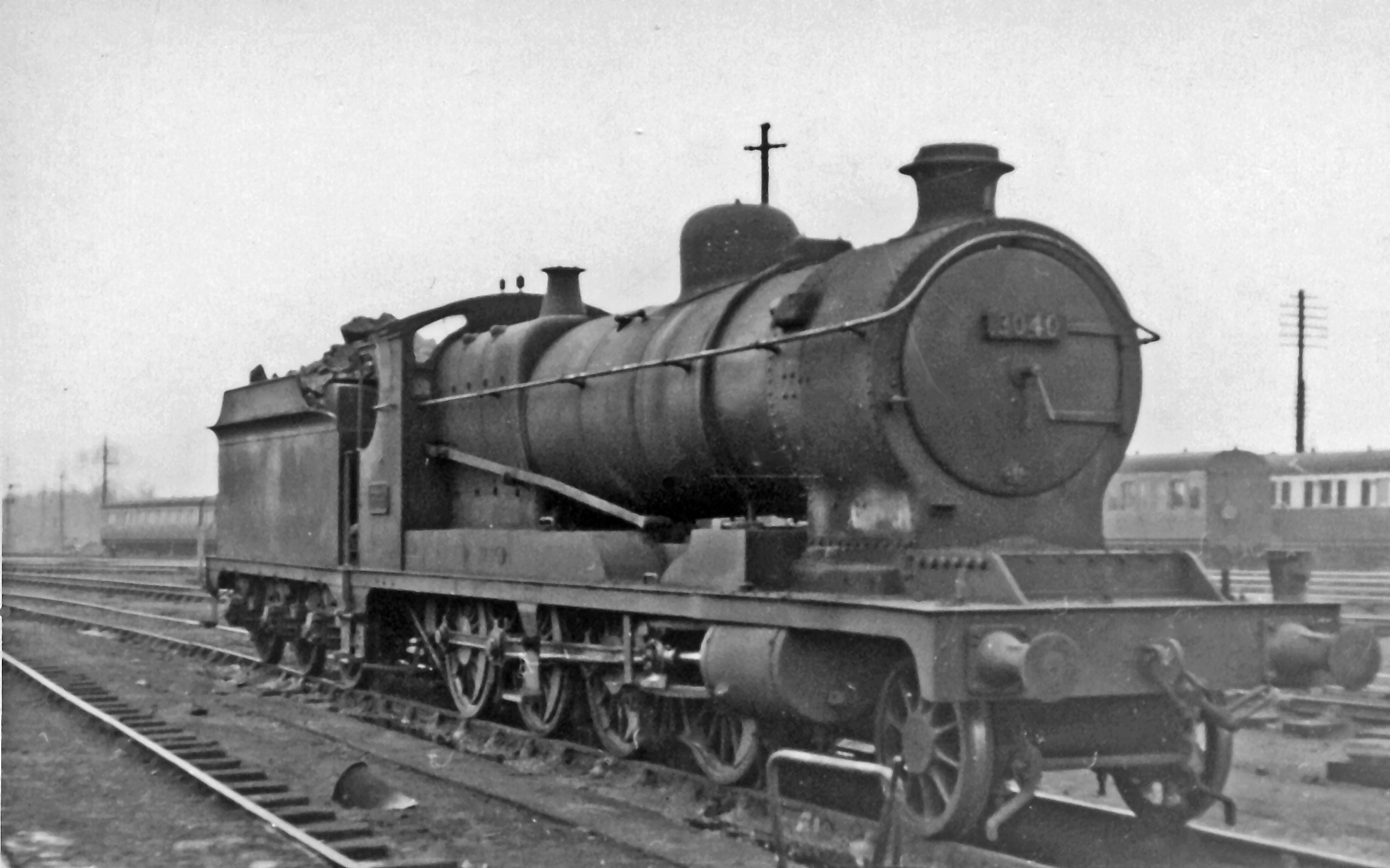 Ex-GWR 'ROD' 2-8-0 at Oxford Locomotive Depot One of the 50 'ROD' ex-World War One 2-8-0s of ex-GC design, which worked on the GWR and survived WW2, No. 3040 was built as WD No. 2154 in 10/18, loaned 10/19 - 9/21 to the GWR as No. 3042, stored at Stratton until 5/25 then used on the GWR as No. 3040 until 6/56.